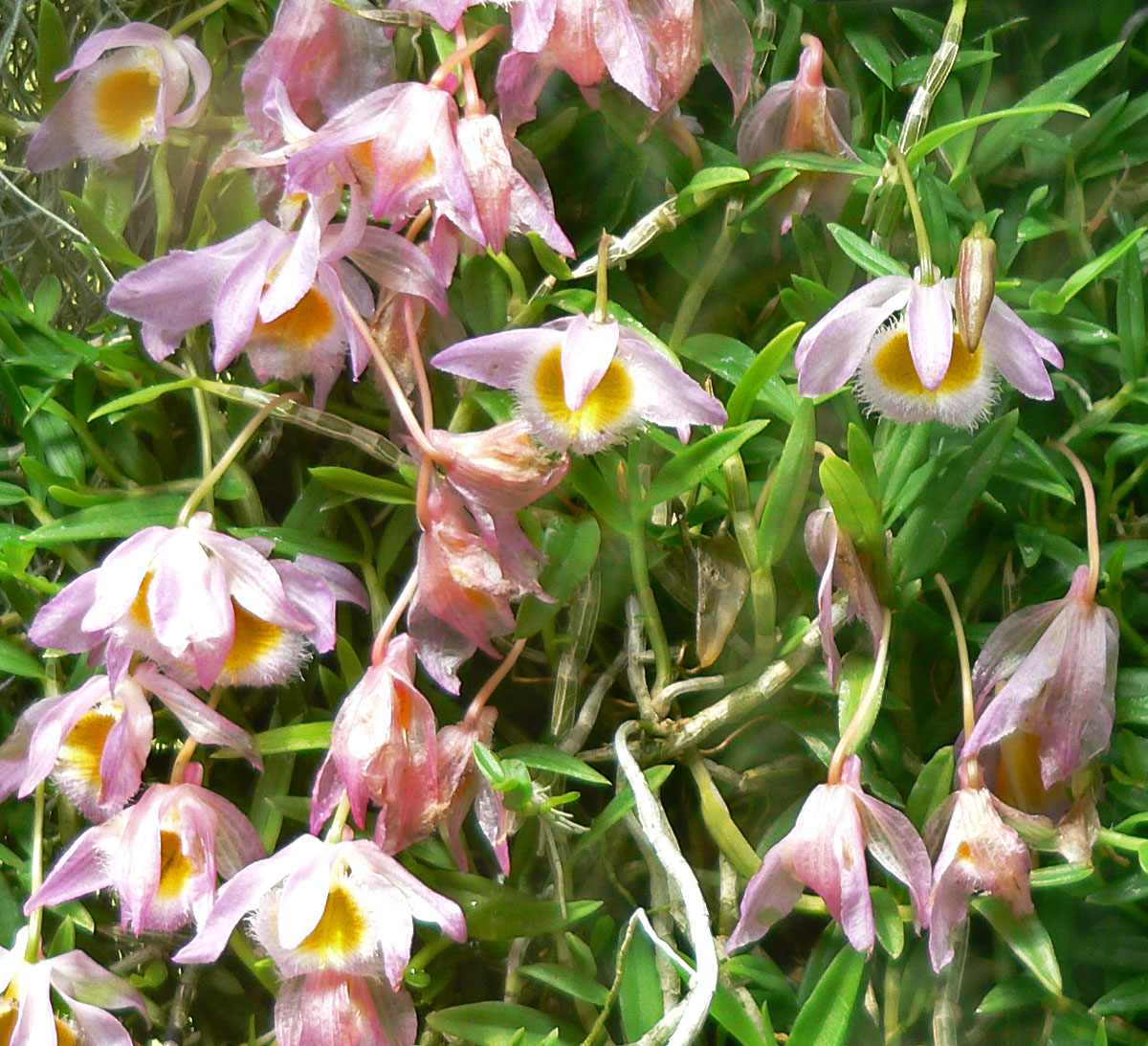 Dendrobium loddigesii at the University of California Botanical Garden, Berkeley, California